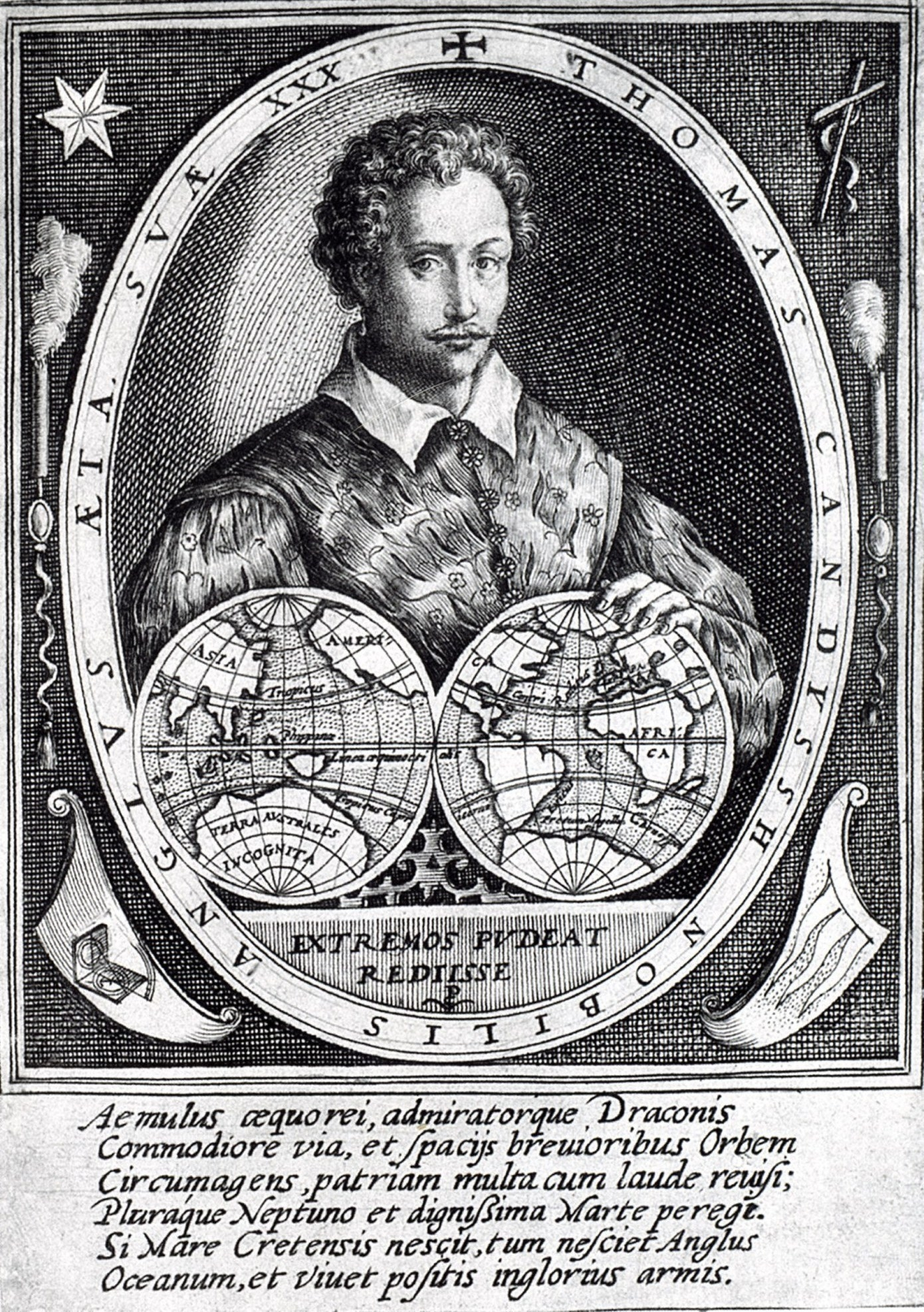 An engraving of English explorer Thomas Cavendish (1560–1592), who was known as "the Navigator" because he was the first to deliberately set out to circumnavigate the globe. The Latin inscription surrounding the bust and map, "THOMAS CANDYSSH NOBILIS ANGLVS ÆTA[TIS] SVÆ XXX", means "Thomas Cavendish, English noble, at the age of 30". The portrait appears to be based on an earlier engraving (4 1/8 in. x 3 1/8 in. (105 mm x 80 mm)) made c. 1590–1592 in Cavendish's lifetime by Jodocus Hondius, which was purchased in 2004 by the National Portrait Gallery in London (NPG 6677). The Latin inscription of that engraving, "THOMAS CANDYSSH NOBILIS ANGLVS ÆTA[TIS] SVÆ XXVIII", means "Thomas Cavendish, English noble, at the age of 28". That portrait was thus made in 1588, the year in which Cavendish returned from his circumnavigation. The print may have been based on a lost portrait miniature: Thomas Cavendish. National Portrait Gallery (London). Retrieved on 2009-04-13.